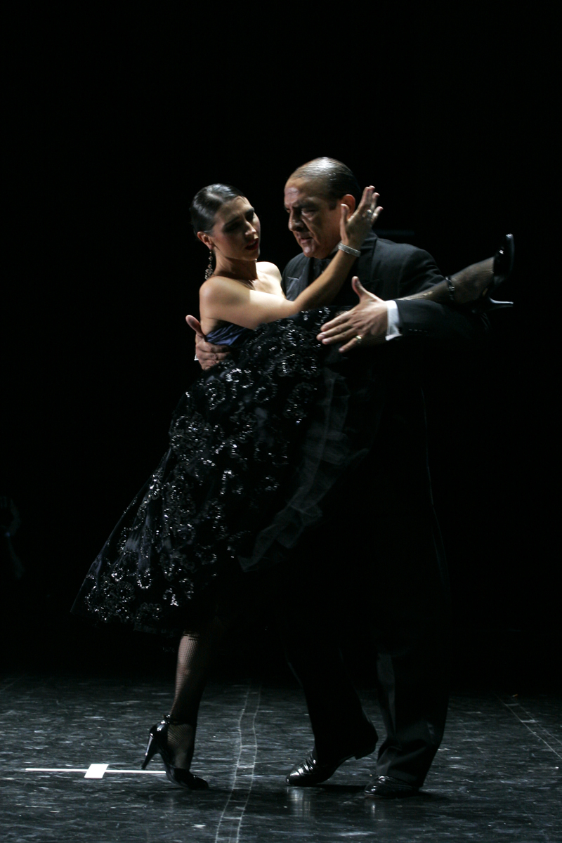 "Tango Argentino" (Claudio Segovia). Song: "Desde el alma" (R. Melo). Dancers: Carlos Copello & Angie González. At the Obelisco, Buenos Aires, feb 2011. Foto: Estrella Herrera